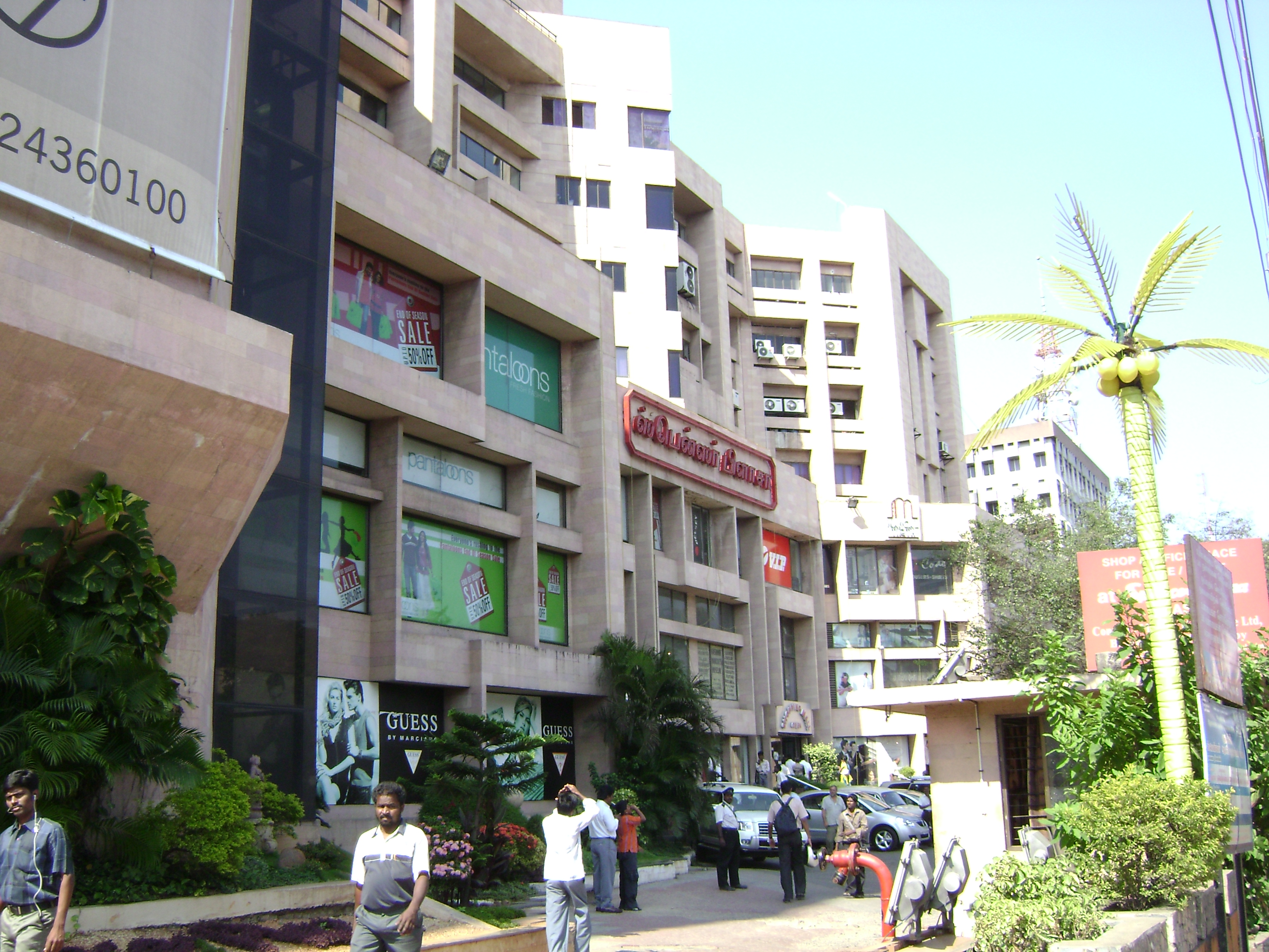 Spencer plaza in Chennai